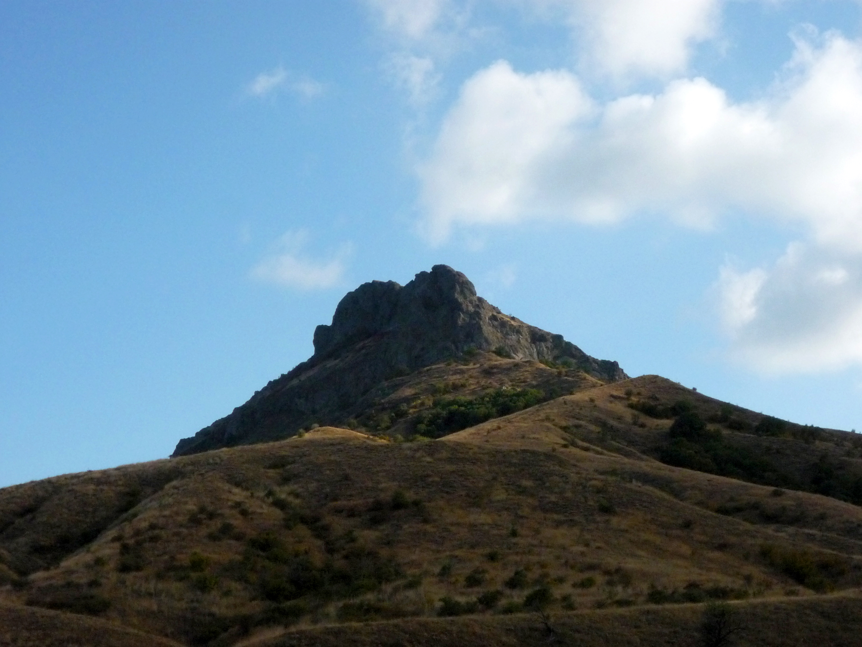 Kara Dag Mountain in Crimea, Ukraine.